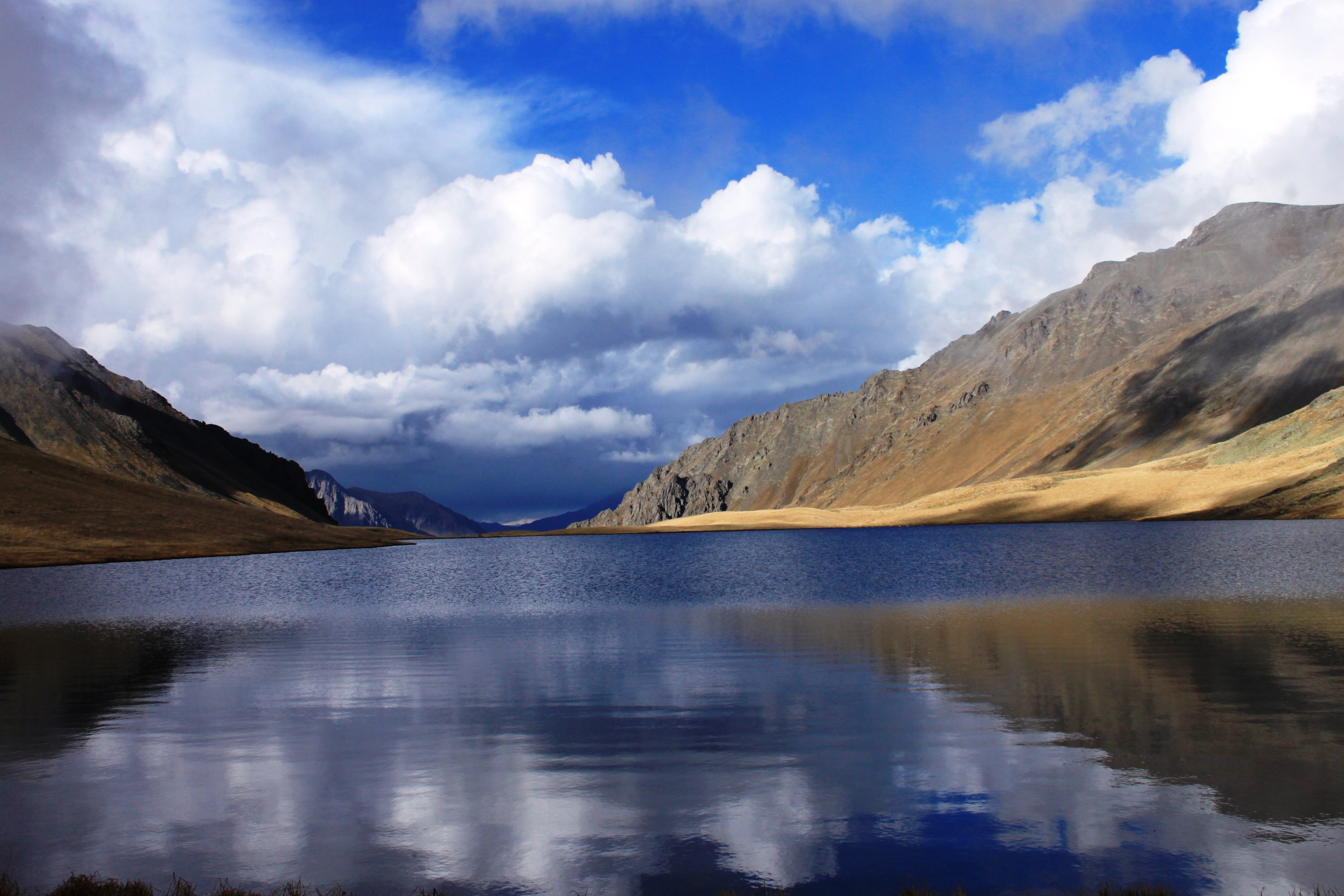 Black rock lake Autumn